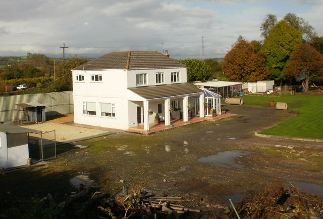 Former station house site, Marshfield This modern house is on the site of the Marshfield Station House building. Marshfield station, roughly midway between Newport and Cardiff, closed in 1959.